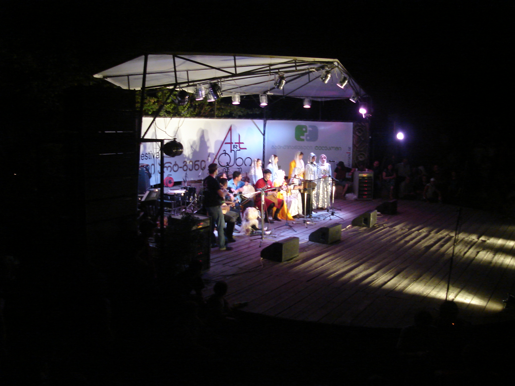 Kist folk ensemble "Pankisi" from the Pankisi Gorge performing at the ArtGene festival (Ethnographic Museum, Tbilisi, Georgia)